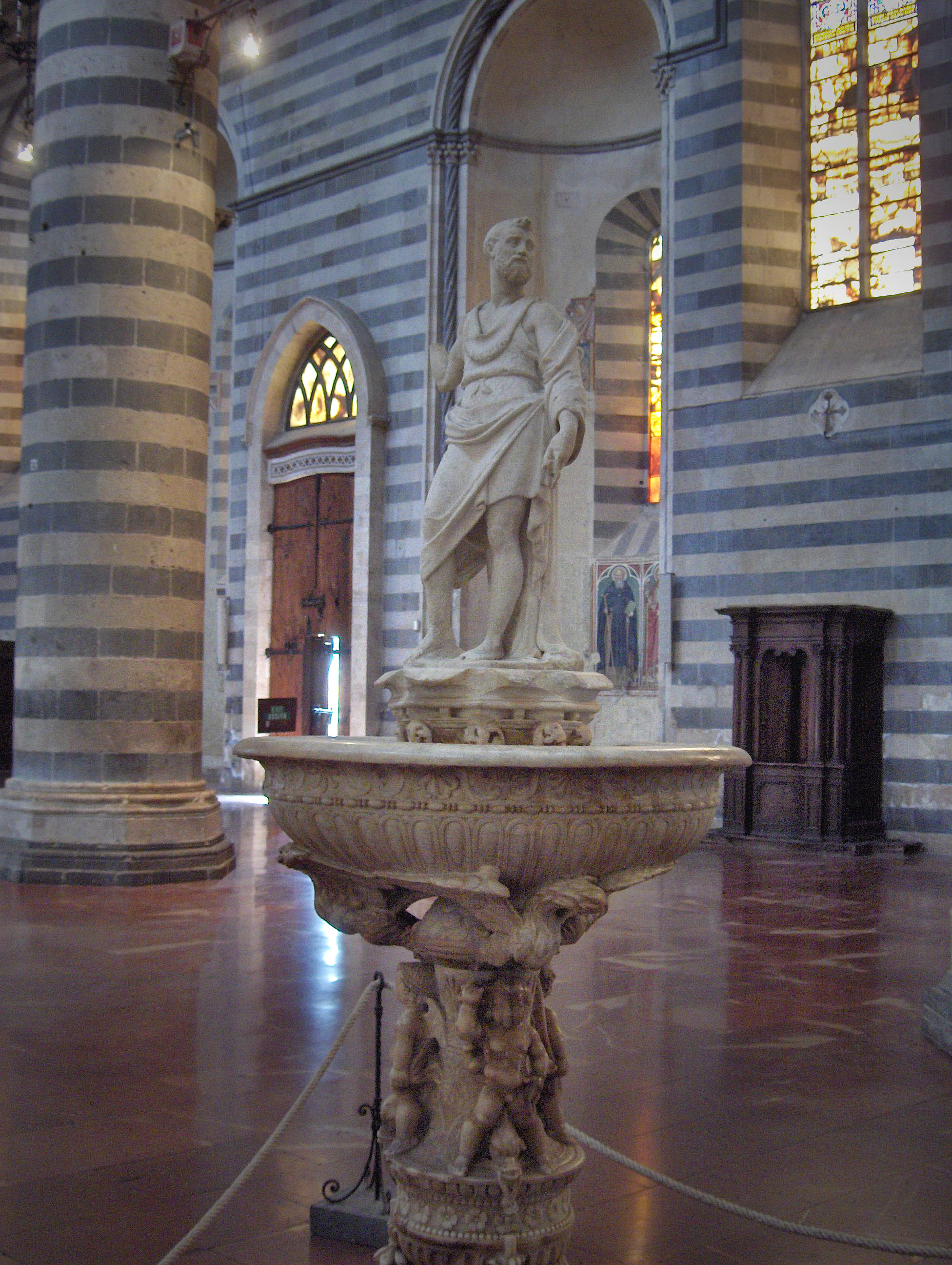 Holy water stoup by Antonio Federighi (15th c.), Cathedral of Orvieto, Italy